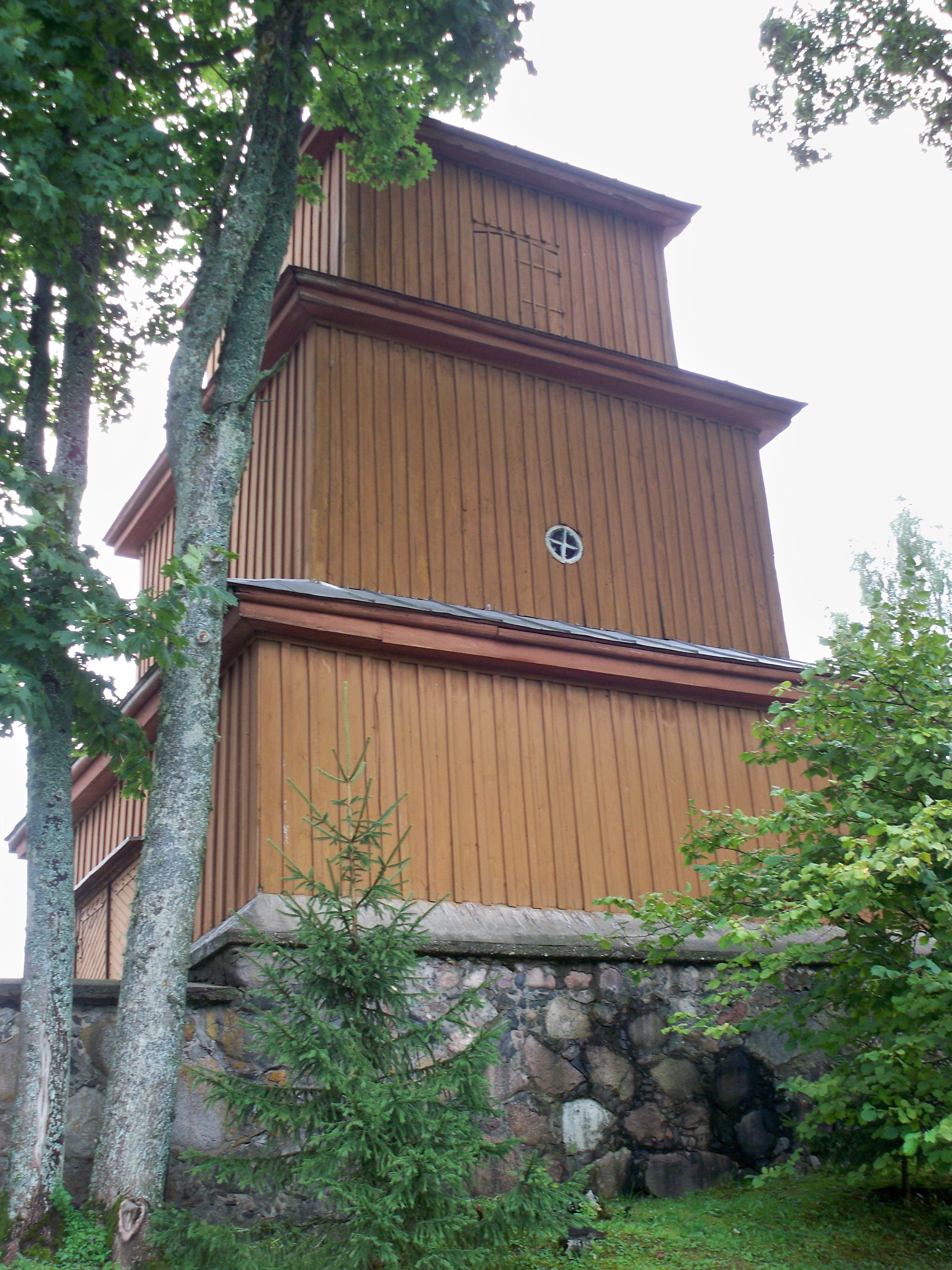 Daugailiai church bell-tower.